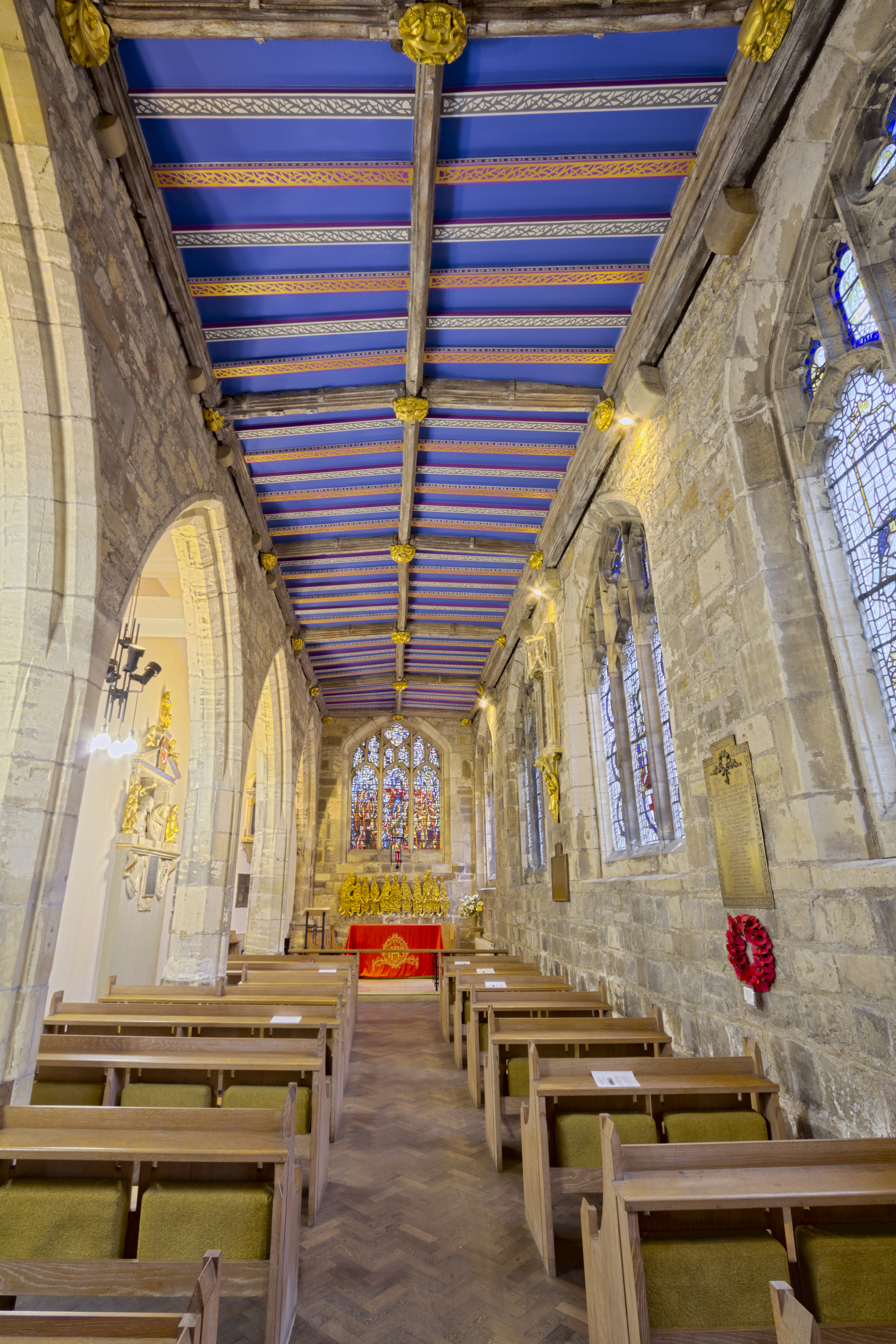 St Martins Church. Located in York, Yorkshire, England, UK.